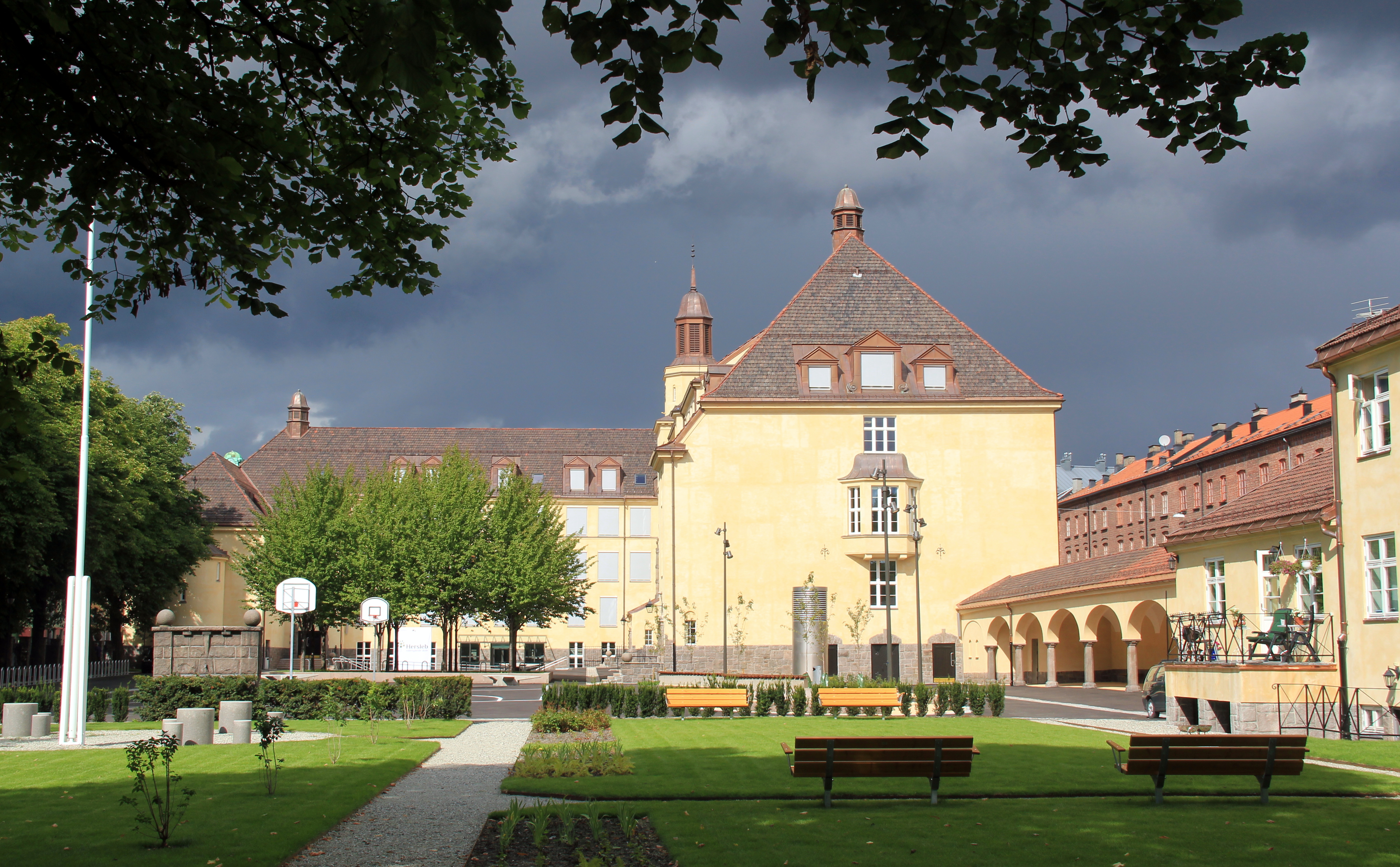 Hersleb School is upgraded and has become Hersleb Upper Secondary School